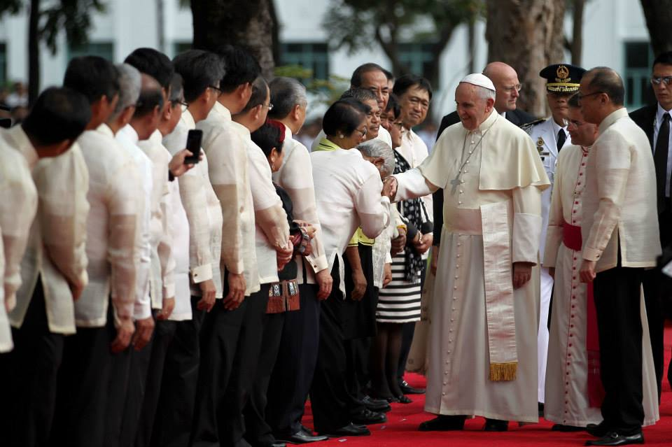 President Benigno S. Aquino III introduces to His Holiness Pope Francis members of the Philippine Delegation during the welcome ceremony at the Kalayaan Grounds of the Malacañan Palace for the State Visit and Apostolic Journey to the Republic of the Philippines on Friday (January 16, 2015)